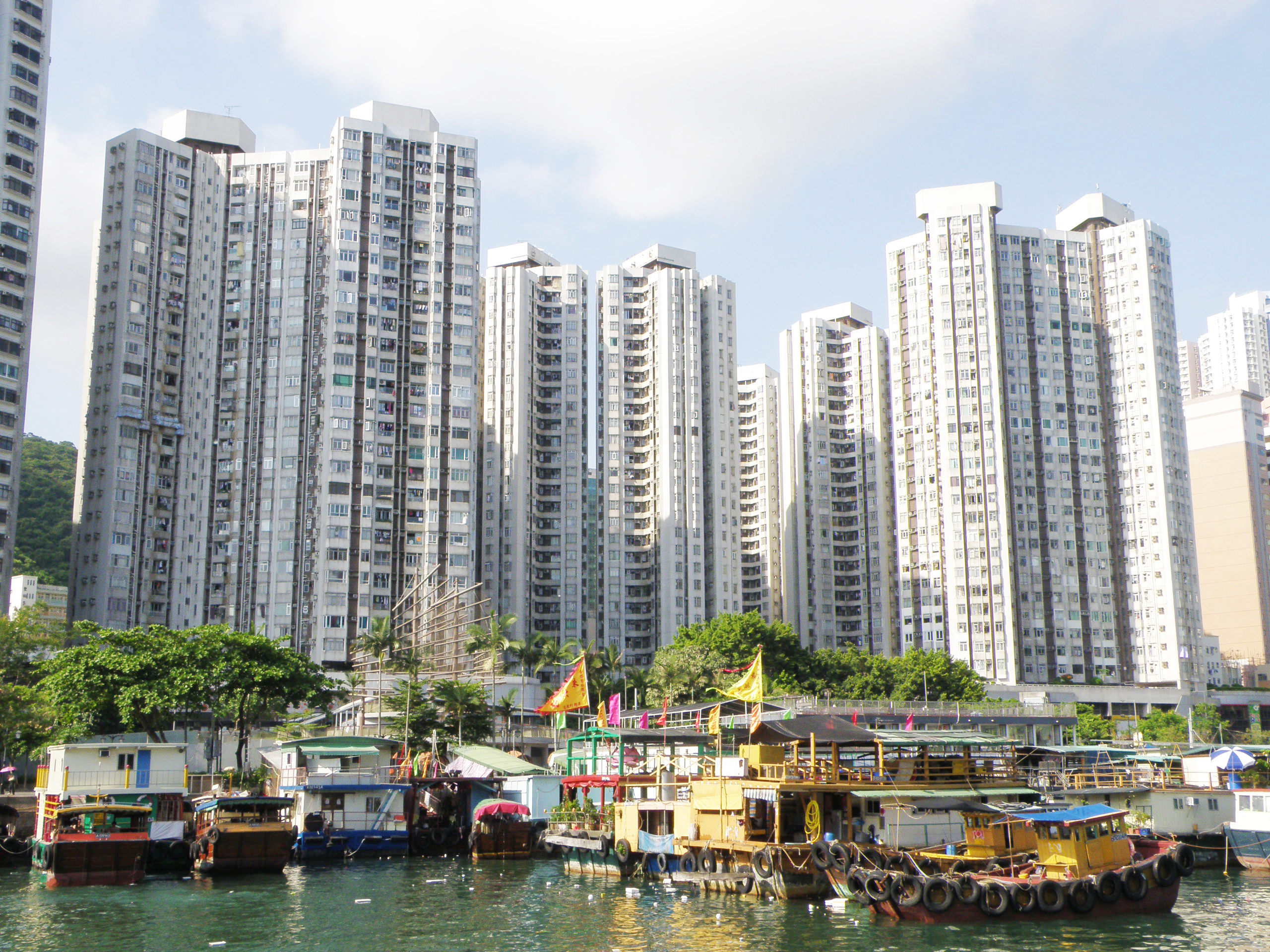 Aberdeen Centre in Aberdeen, Hong Kong.